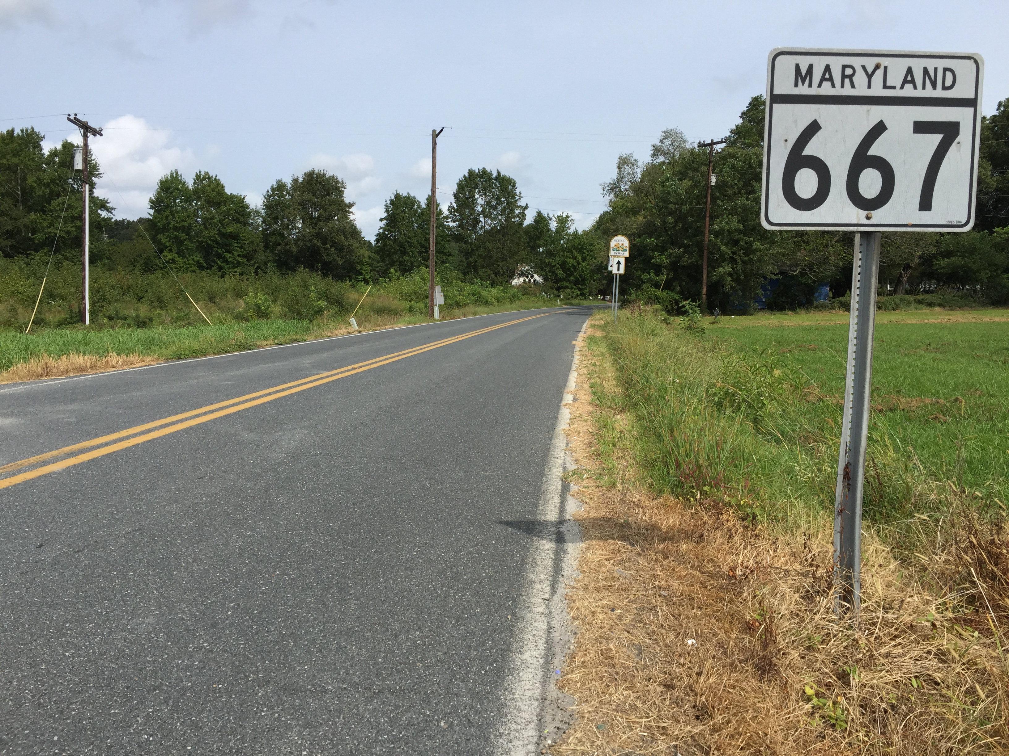 View east along Maryland State Route 667 (Crisfield Marion Road) at Maryland State Route 413 (Crisfield Highway) in Hopewell, Somerset County, Maryland